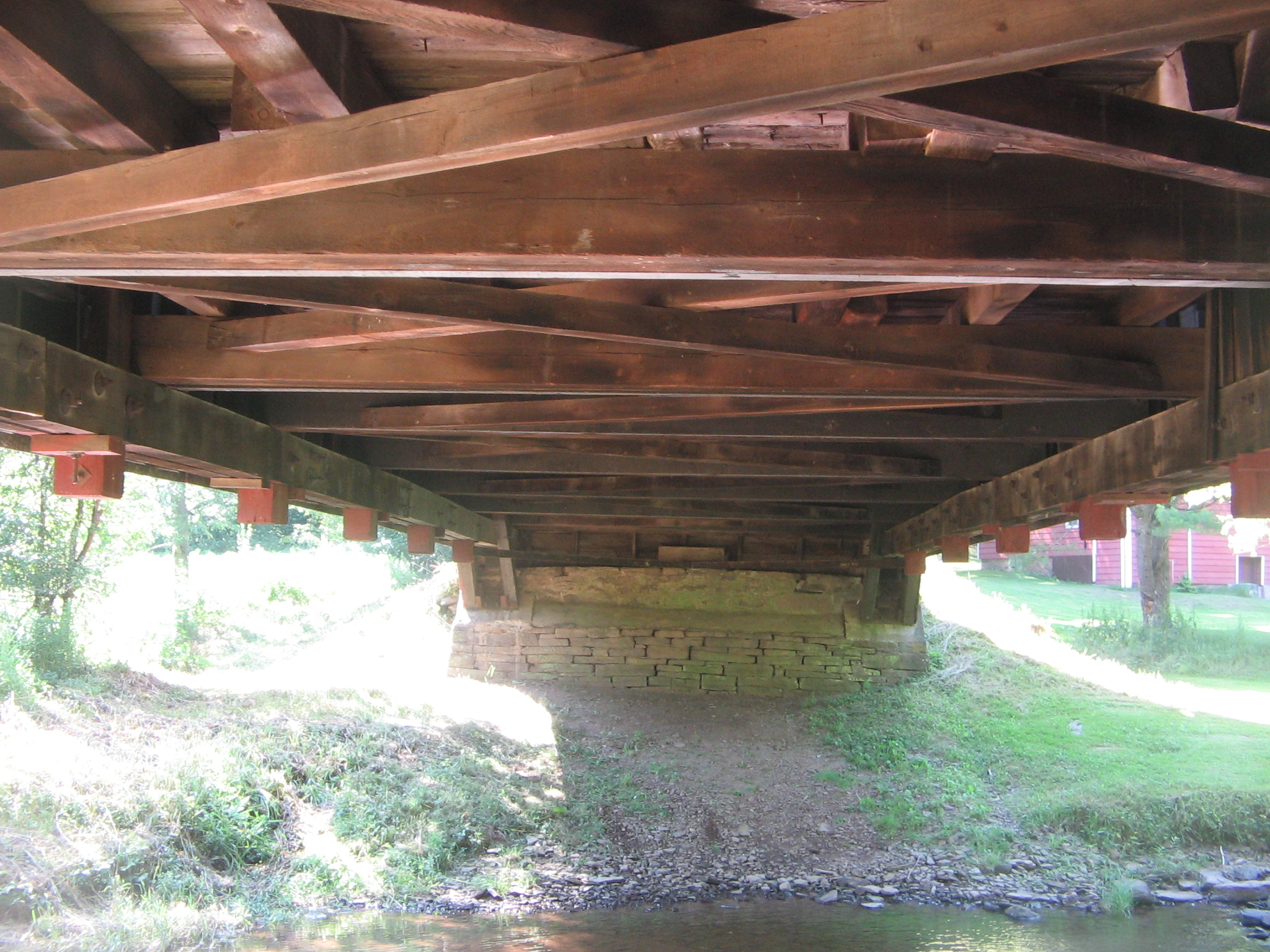 Bottom of Larrys Creek Covered Bridge (also known as Cogan House Covered Bridge and Buckhorn Covered Bridge) over Larrys Creek in Cogan House Township, Pennsylvania, USA. Bridge built 1877, rehabilitated 1998. On the US National Register of Historic Places. A Burr arch truss bridge.